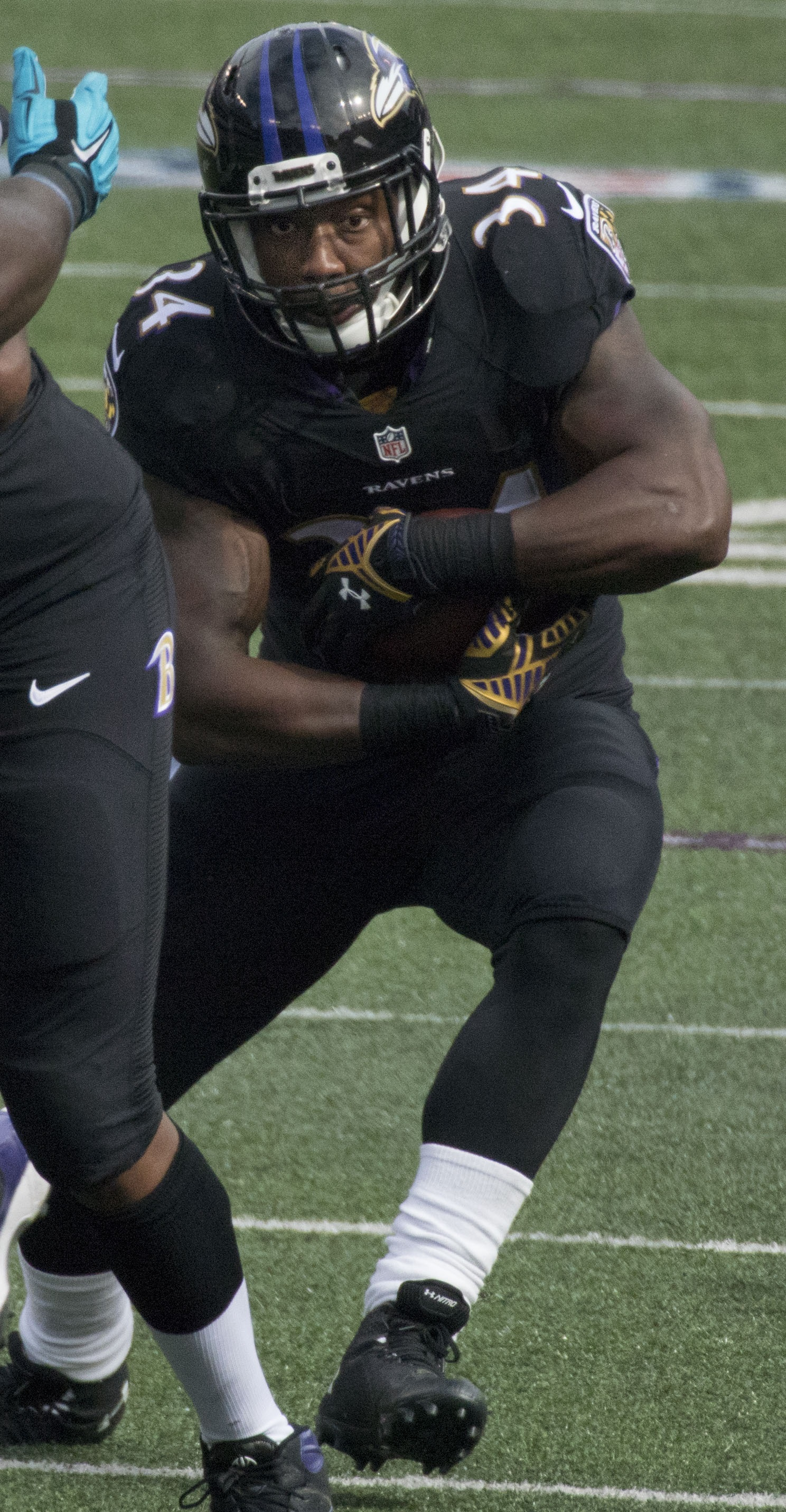 Panthers at Ravens 9/28/14